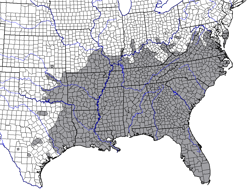 North American distribution map of Pleopeltis polypodioides